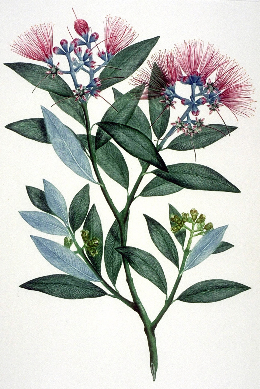 Pōhutukawa, (Metrosideros excelsa), collected at Tolaga Bay, New Zealand, during Sir James Cook's first Pacific voyage on the Endeavour, 1768-1771. Coloured engraving, ink and watercolours on Paper.